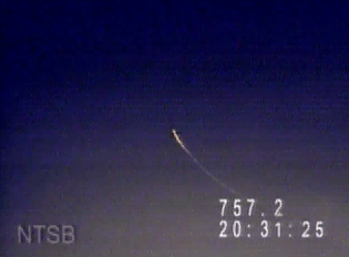 Frame from NTSB animation showing a potential witness view of the TWA post-CWT explosion flight sequence. Original .mov file viewed from